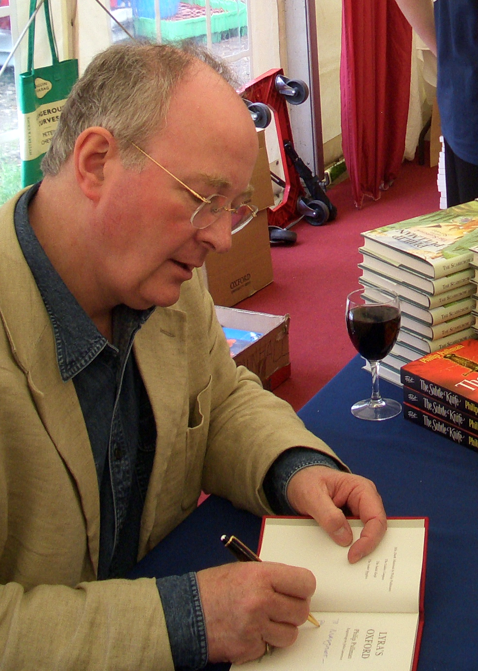 Philip Pullman signing a copy of Lyra's Oxford for a reader, Margaret Maitland, at the Oxford Literary Festival.